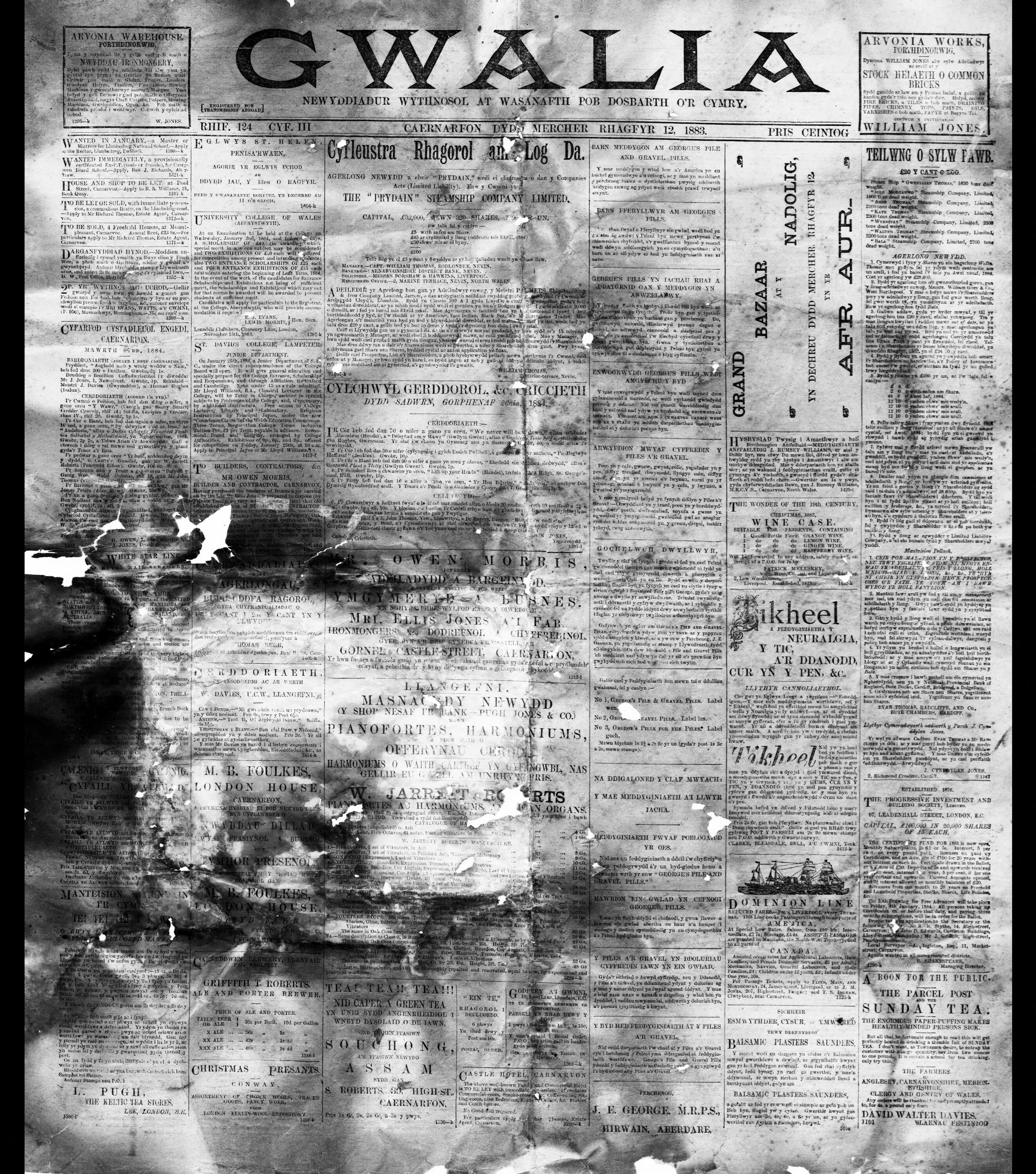 Front page of the earliest surviving copy of the Welsh newspaper GwaliaCymraeg: Tudalen flaen y copi cynharaf sydd yn bodoli o'r papur newydd Cymraeg Gwalia